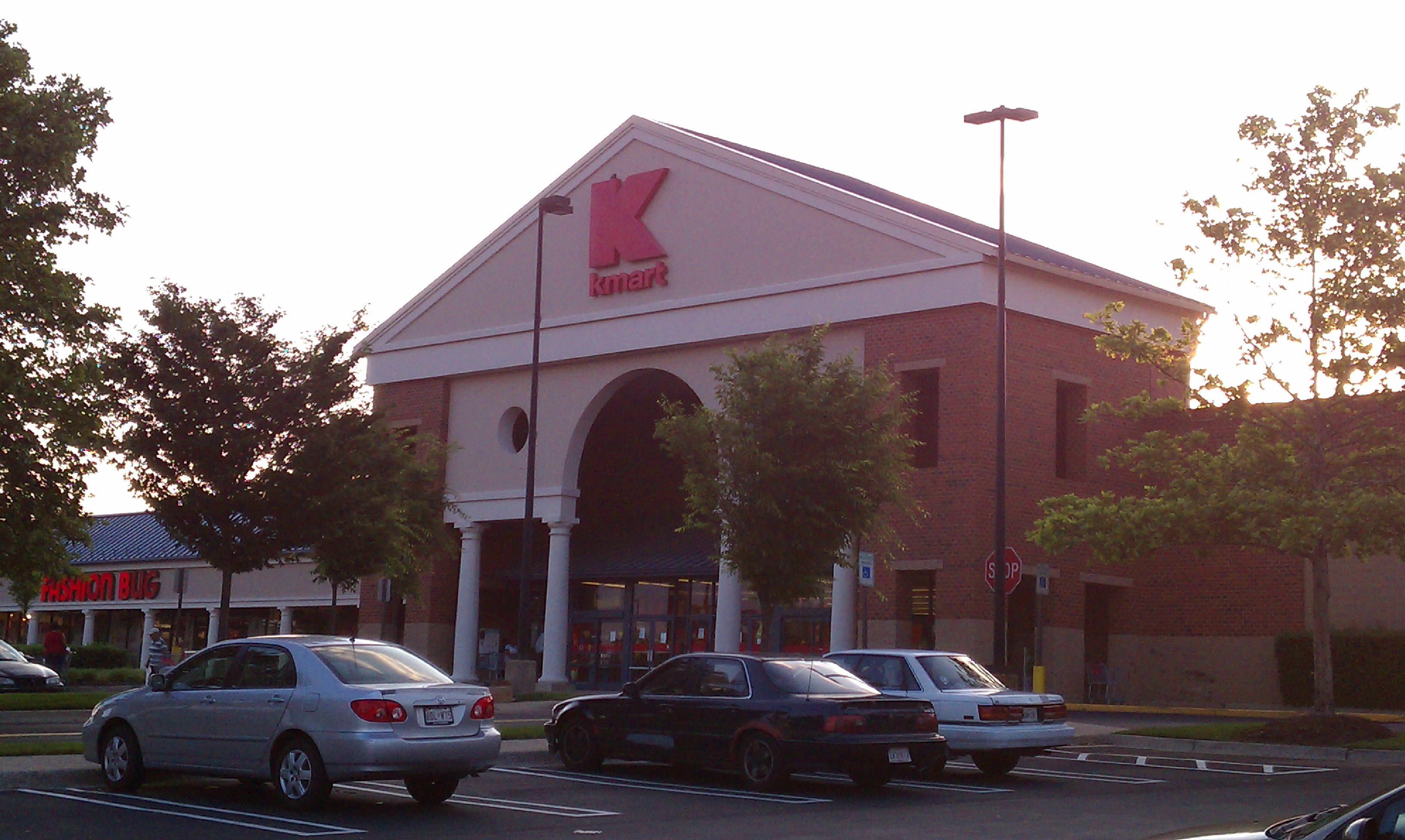 Remodelled Kmart in Gaithersburg, MD.